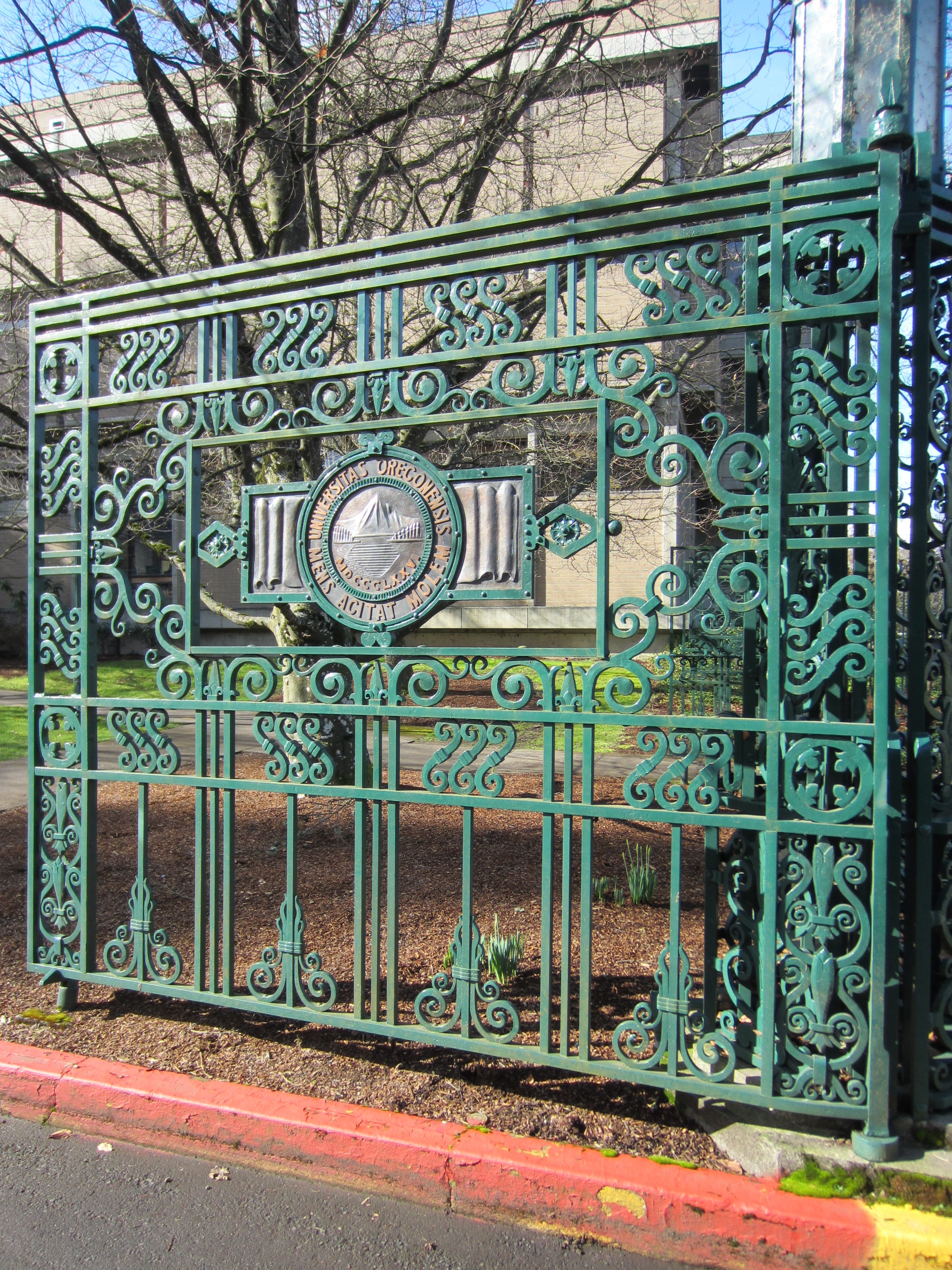 Dads' Gates, University of Oregon in Eugene (2013)